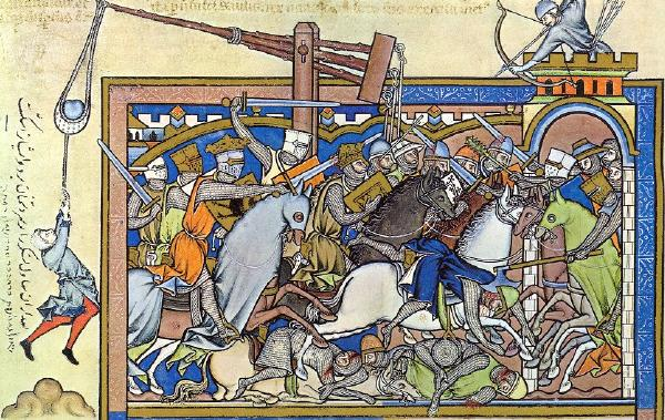 Illustration from a french book made for king Louis IX (or Saint Louis) in 1250. Book is kept in Pierpont Morgan Library (New-York).